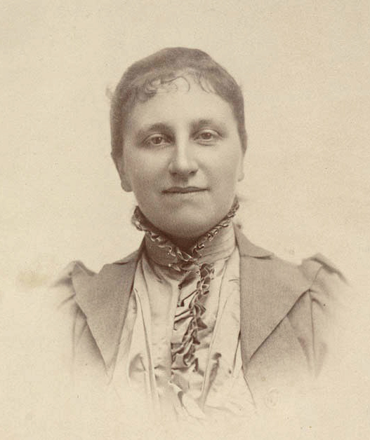 Format: Photograph Notes: Louisa Macdonald (1858-1949) was the first principal of the Women's College, University of Sydney. She was also active in the Womanhood Suffrage League of New South Wales and the Women's Literary Society. Find more detailed information about this photographic collection: .au/item/itemDetailPaged.aspx?itemID=441796 Search for more great images in the State Library's collections: .au/search/SimpleSearch.aspx From the collection of the State Library of New South Wales